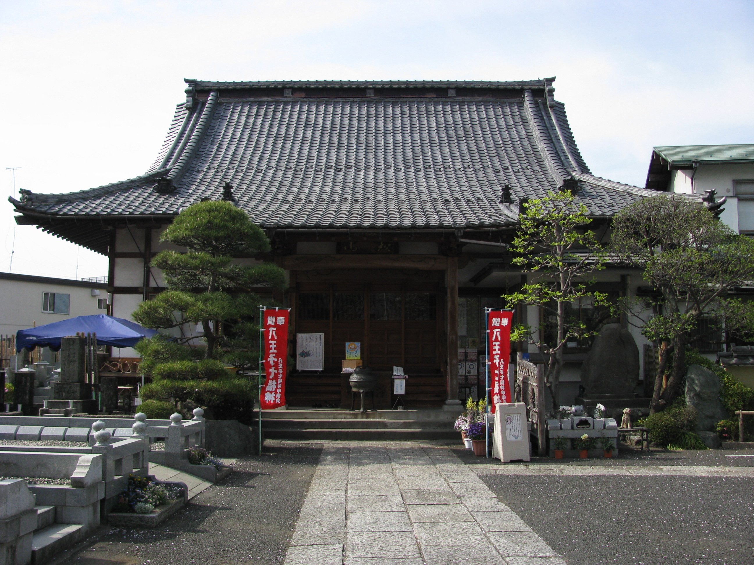 The Ryōhō-ji. This Place is hiyoshi-machi in Hachiōji, Tokyo, Japan.